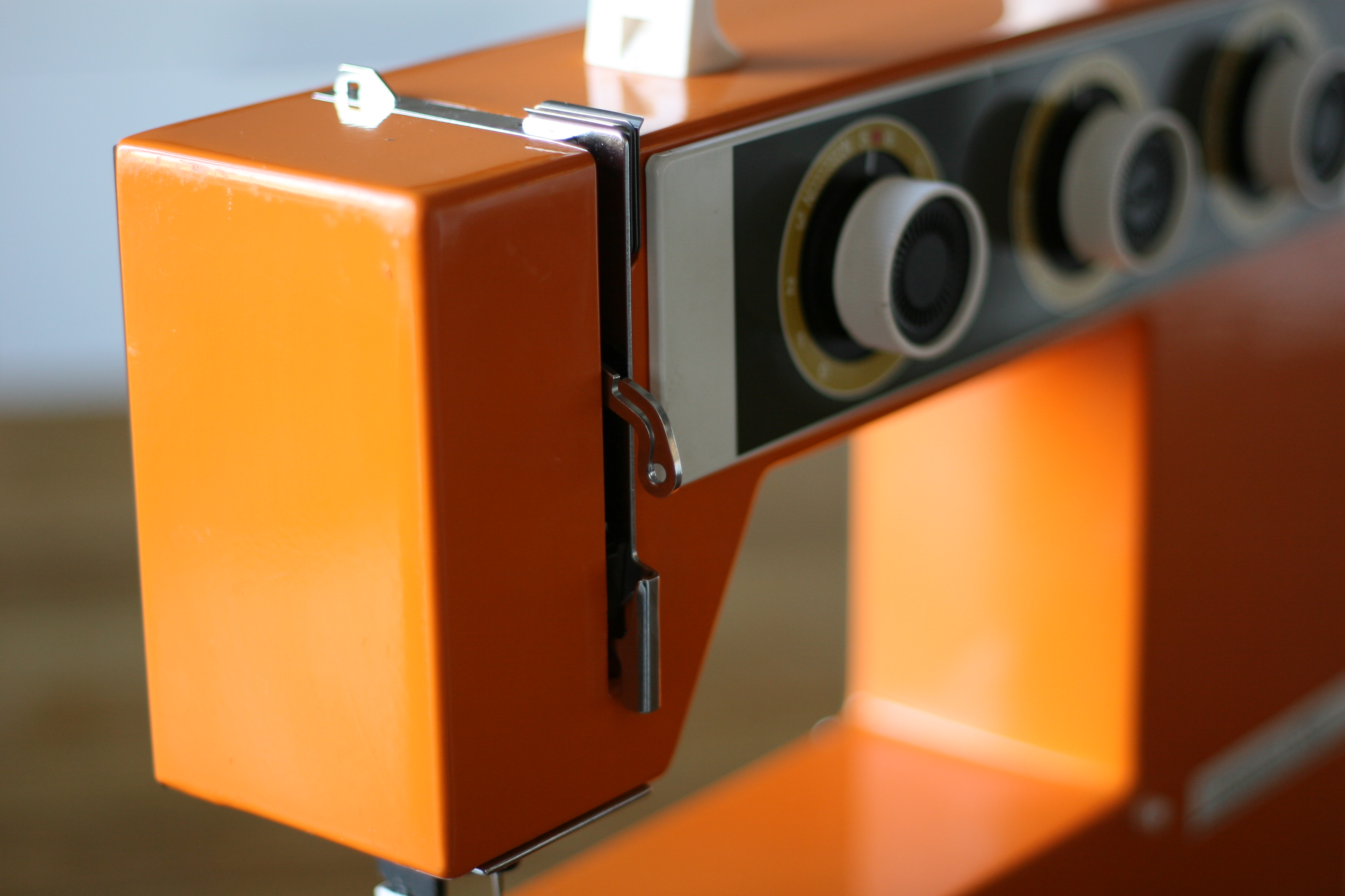 A Husqvarna 3600 sewing machine